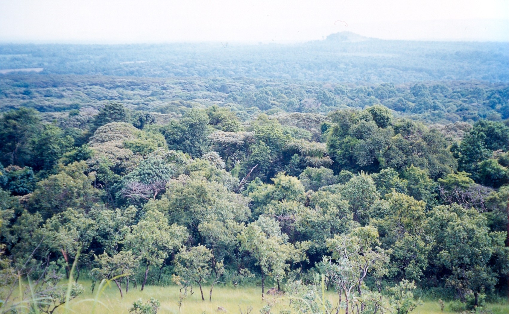 Kakamega Forest, Kenya.